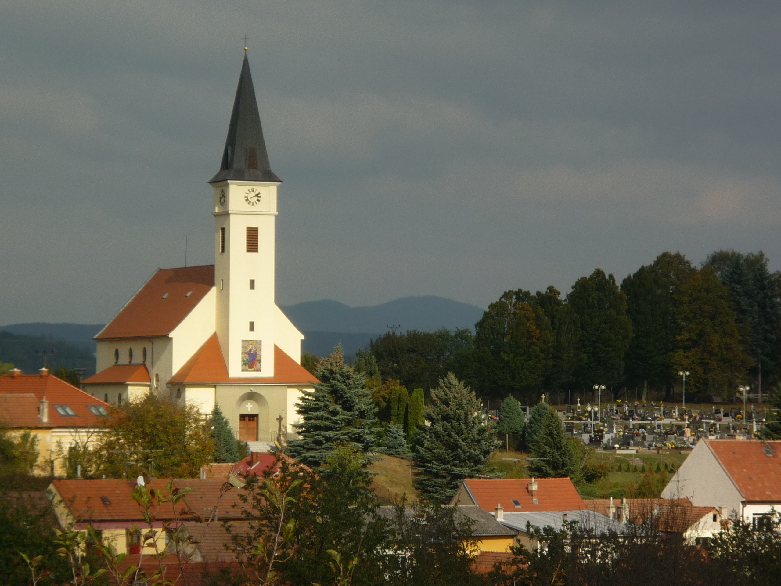 Church Jesus Christ the King in Prakšice (CZ)